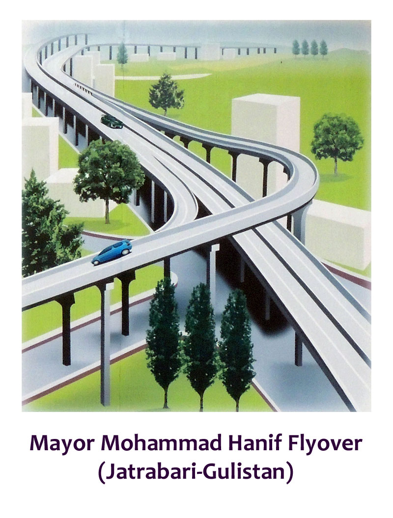 Jatrabari-Gulistan Flyover, formally known as "Mayor Mohammad Hanif Flyover", Dhaka, Bangladesh